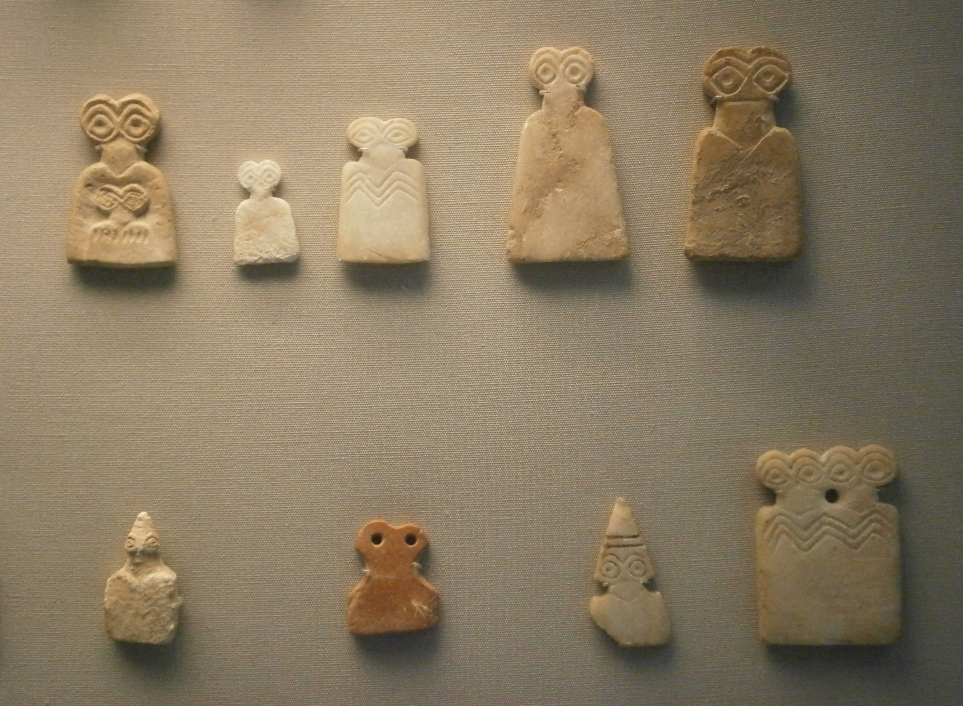 "Eye idols" from the "Temple of the Eyes" of Tell Brak. Alabaster. C. middle 4th millennium BC.